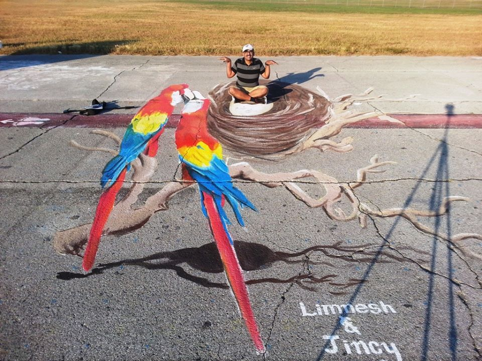 This is a 3D street painting drawn by Limnesh Augustine